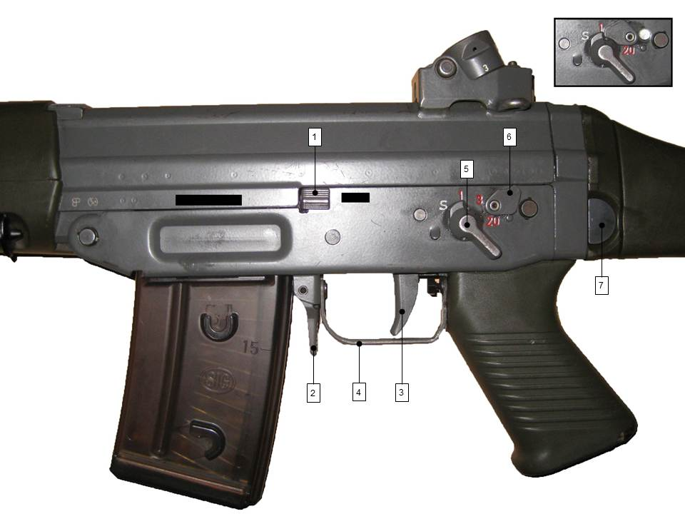 SG 550 1: Bolt catch 2: Magazine release 3: Trigger 4: Trigger guard 5: Manual safety 6: automatic fire blocker 7:Buttstock folding button